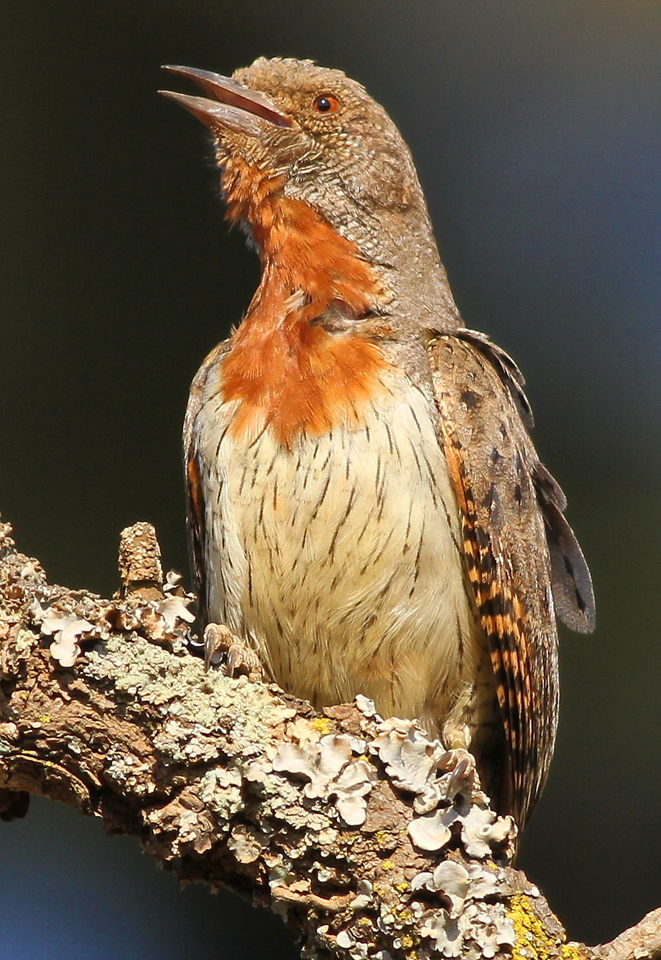 Red-throated Wryneck, Jynx ruficollis at Rietvlei Nature Reserve, Gauteng, South Africa